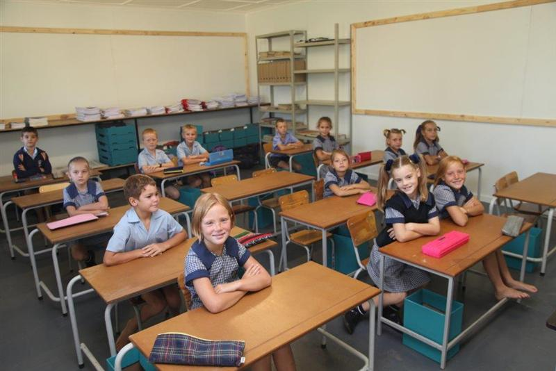 Inside of the classroom, CVO school in Orania.